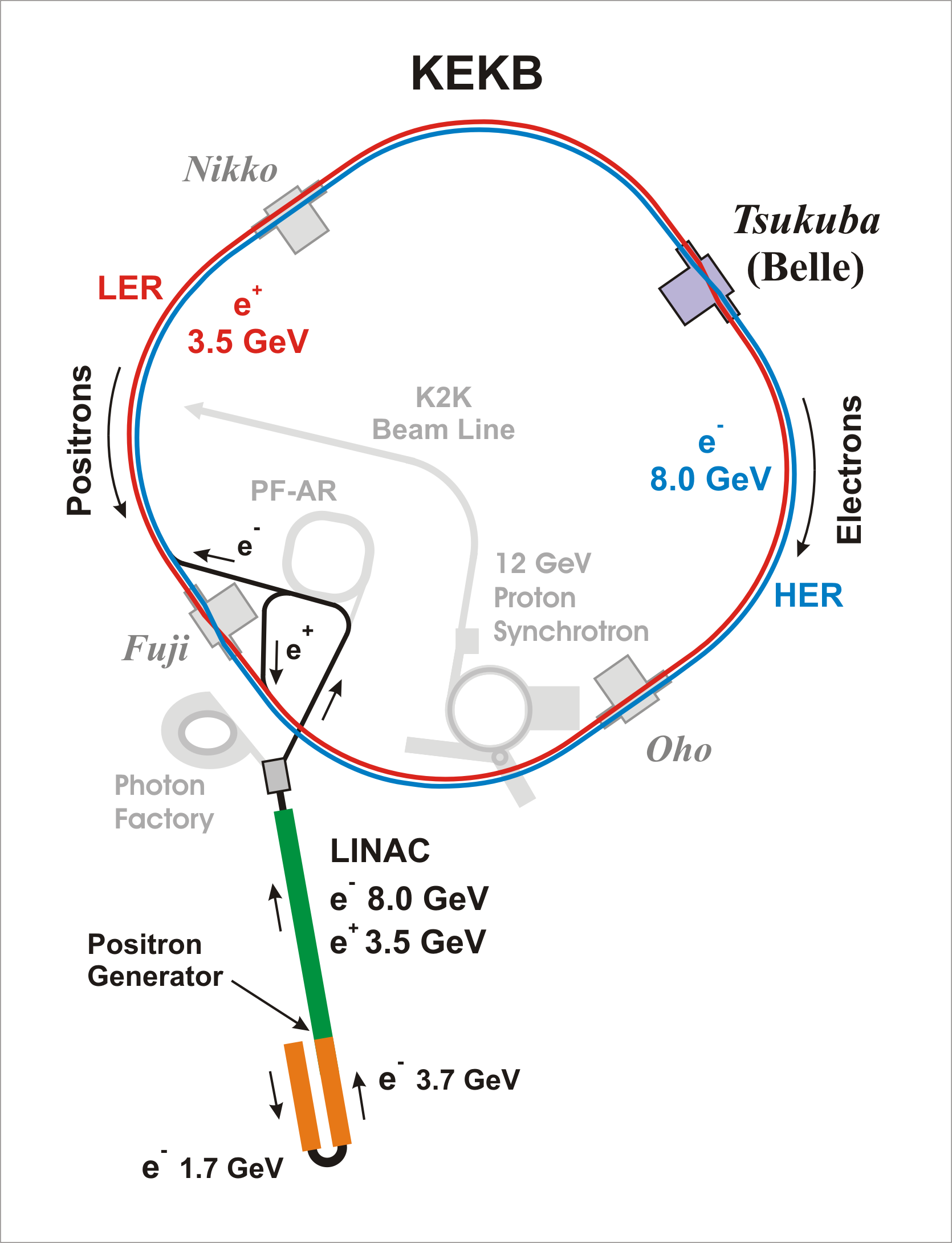 Schematic layout of the KEKB particle accelerator at KEK in Tsukuba (Japan).